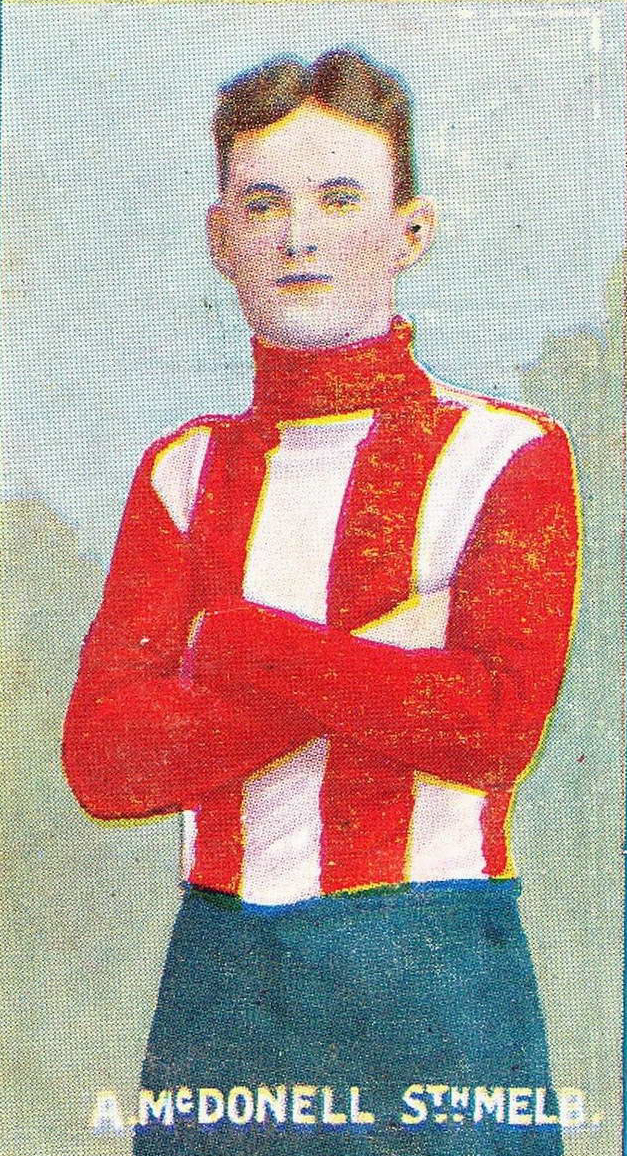 Cigarette card of Andy McDonnell from the Sniders & Abrahams 1907 series